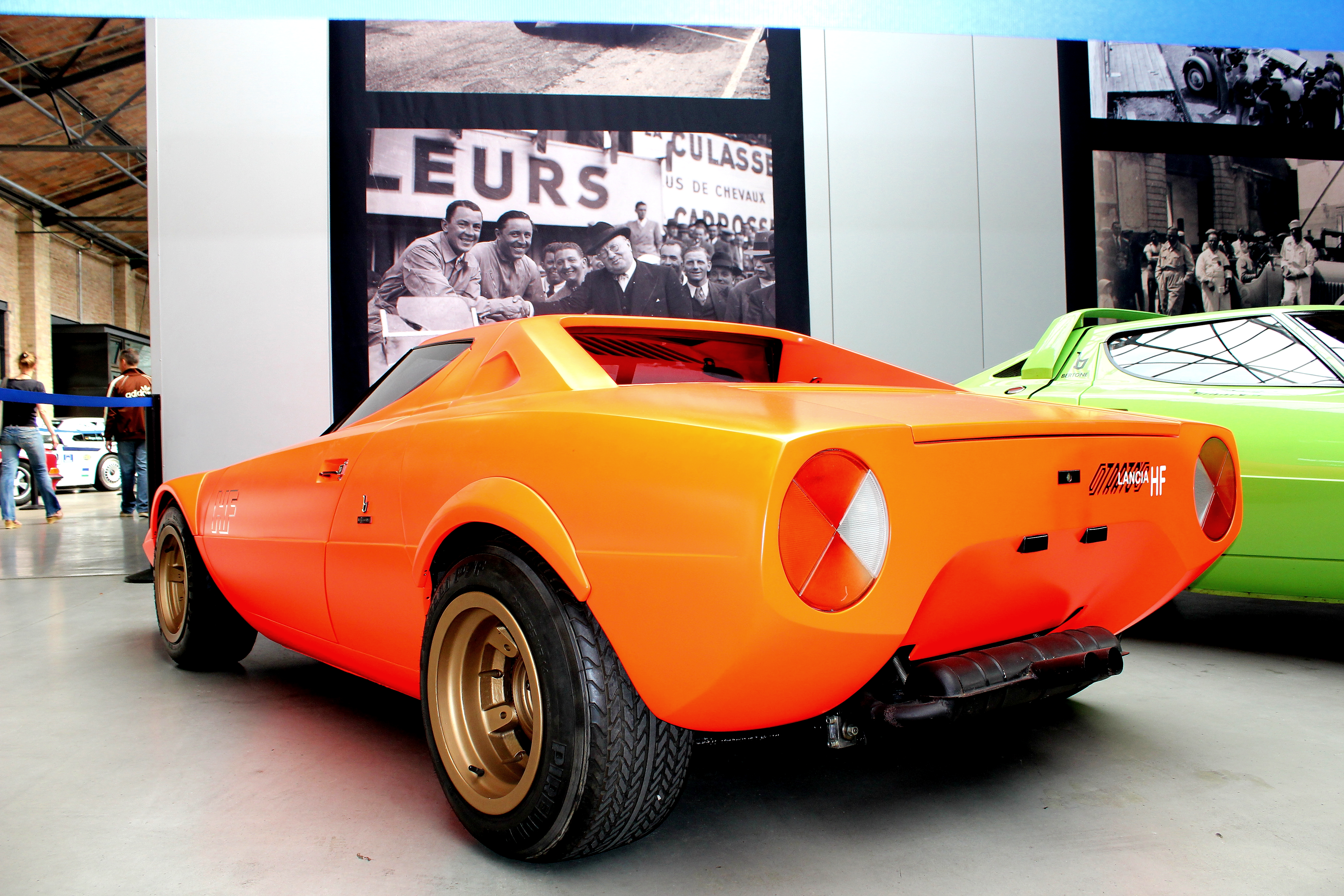 Lancia Stratos HF Prototype at Classic Remise Berlin